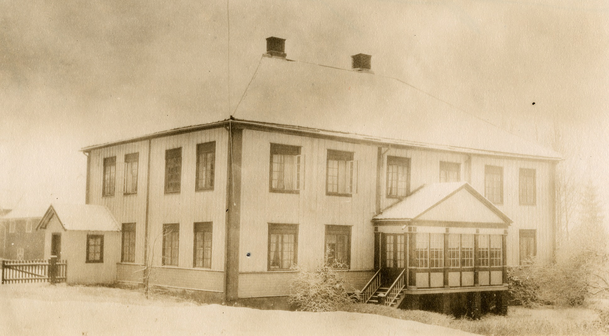 Åmot prestegård, Rena. Ukjent fotograf, fra Kulturminnebilder.